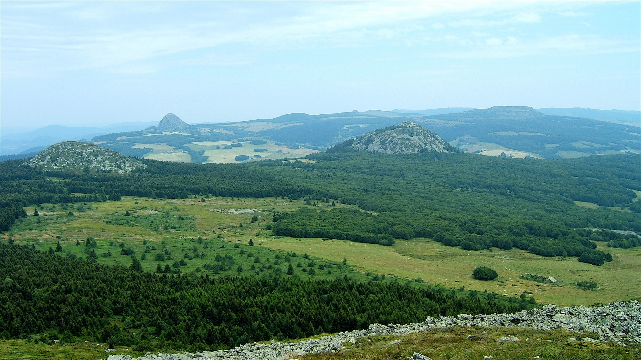 Landscape of Mezenc's Massif